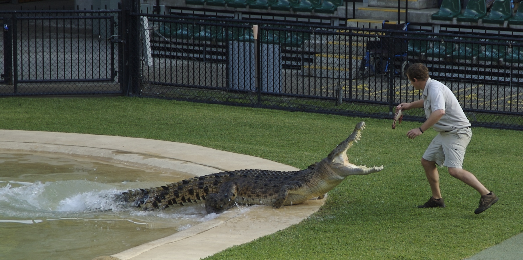 Australia Zoo is located in the Australian state of Queensland on the Sunshine Coast near Beerwah/Glass House Mountains. It is owned by Terri Irwin, who is the widow of Steve Irwin, whose wildlife documentary series The Crocodile Hunter made the zoo a popular tourist attraction. Although best known for the crocodiles and the live crocodile feedings, the zoo is also known for featuring exhibits of other Australian wildlife, including koalas, wombats, Tasmanian devils, snakes, and (until 2006) a giant Galapagos tortoise called Harriet, who was generally acknowledged as the world's oldest living chelonian when she died on June 23, 2006, at the age of 176.[1] The Zoo also features a smaller selection of animals from around the world, including elephants, tigers, cheetahs and Komodo Dragons, along with a wide range of birds.